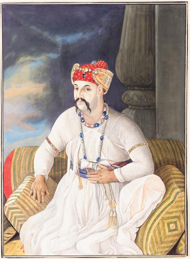 "A PORTRAIT OF THE NAWAB OF OUDH, ASAF-UD-DAULA, LUCKNOW, INDIA, CIRCA 1785-90; watercolour and gouache on card, with a seated figure in relaxed pose, dressed in white with a jewelled turban, necklaces and bazubands, his waist band supporting a fine rock crystal hilted dagger, unframed.